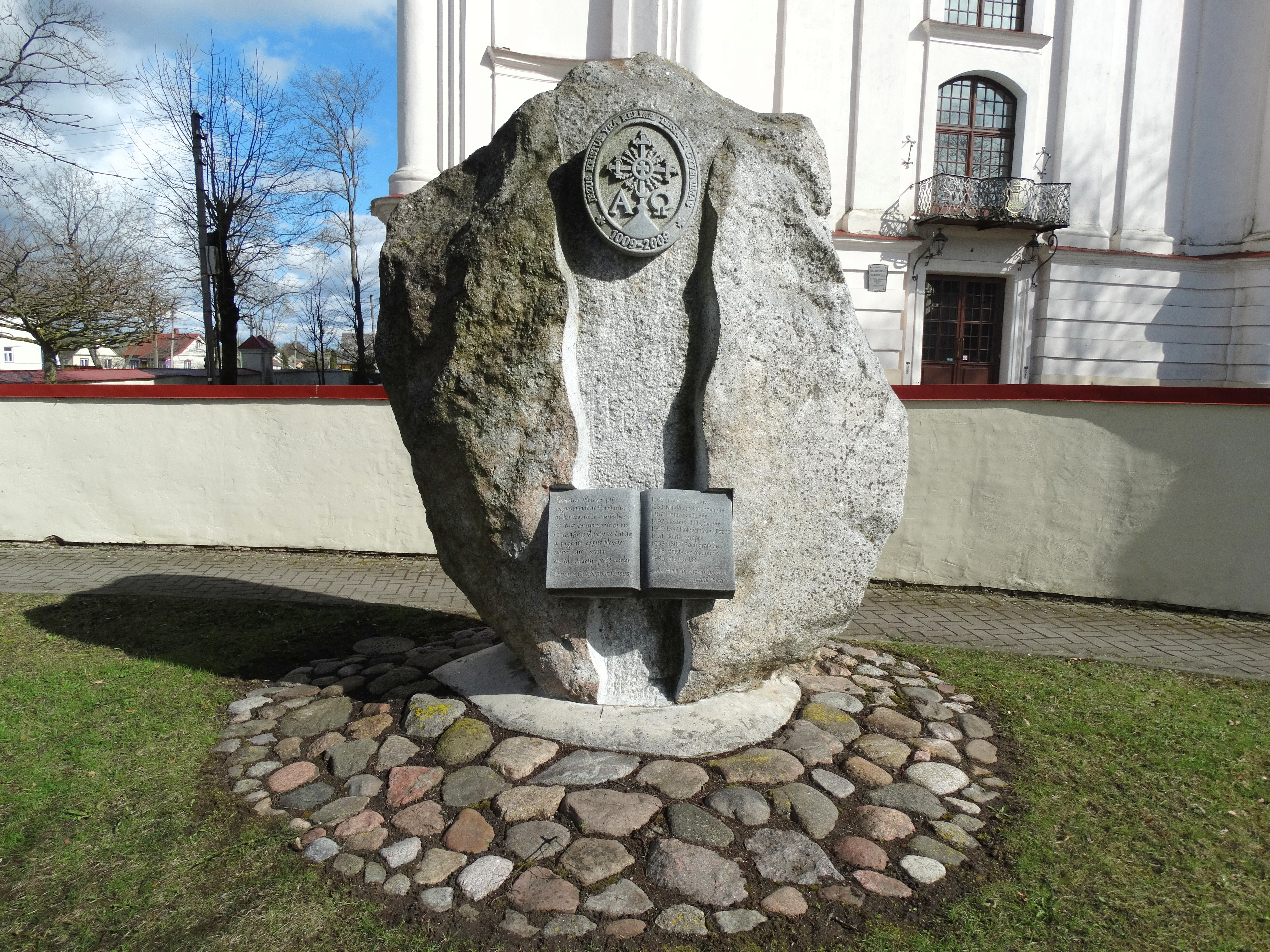 Stone with enscription from Quedlinburg Annals, Jieznas, Lithuania